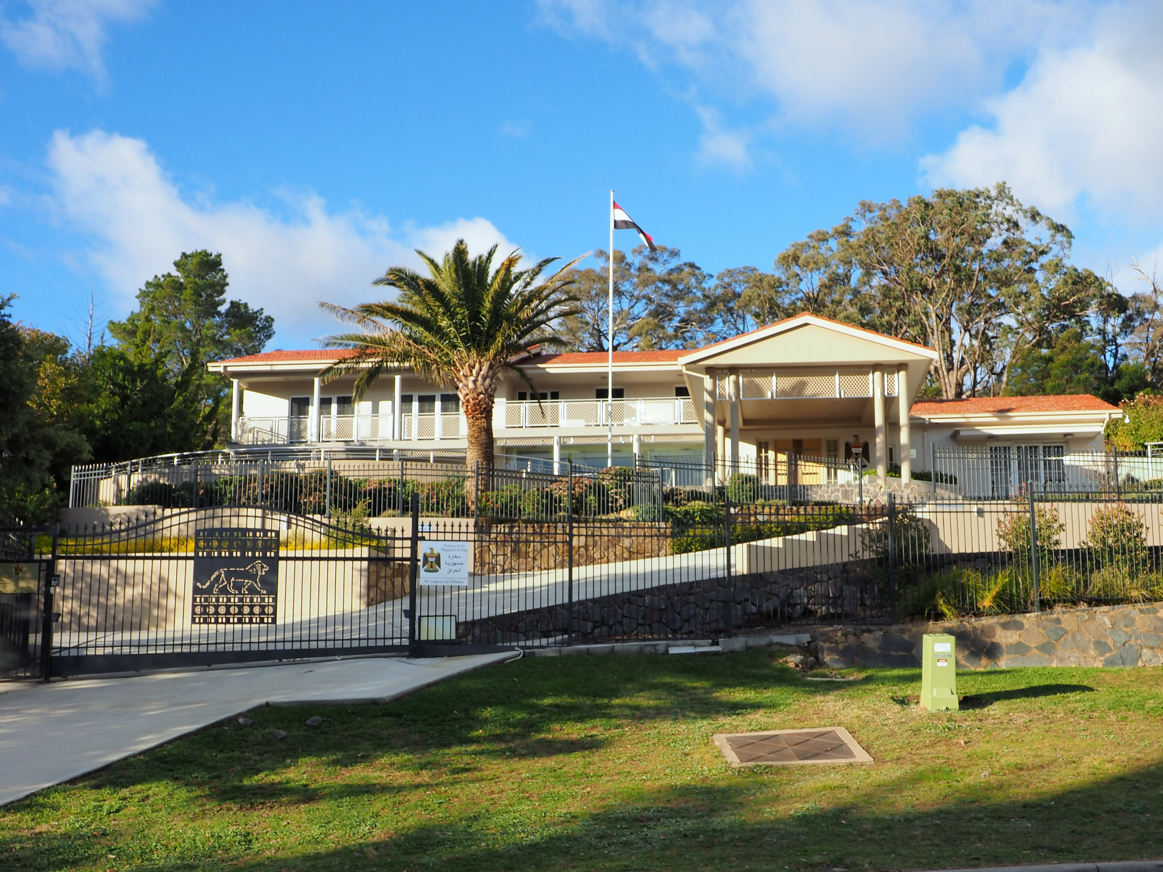 The Embassy of Iraq to Australia